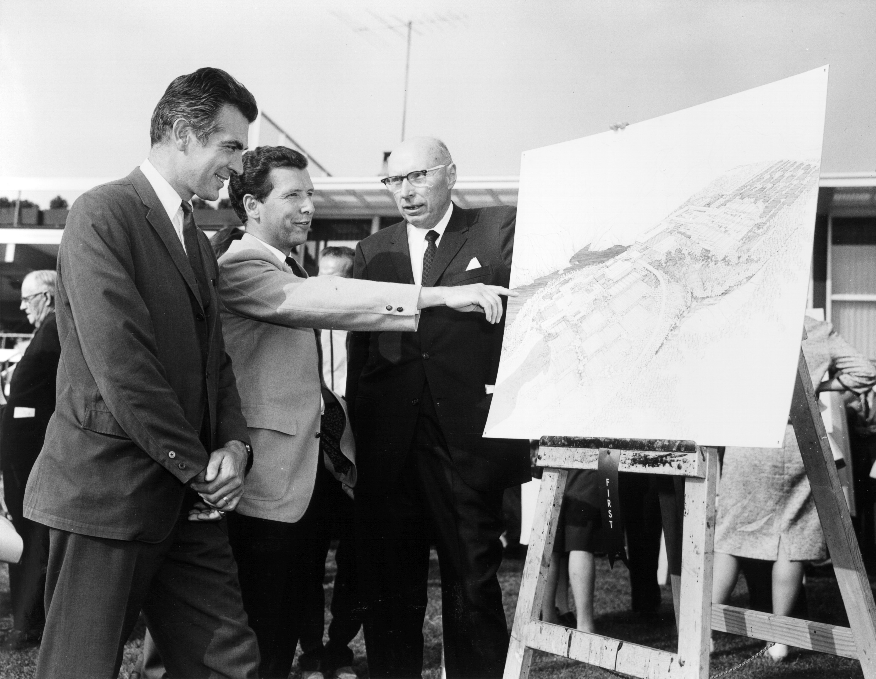 Gordon Shrum with SFU Architects